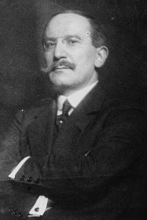 Léon Samoilovitch Bakst (1866-1924)